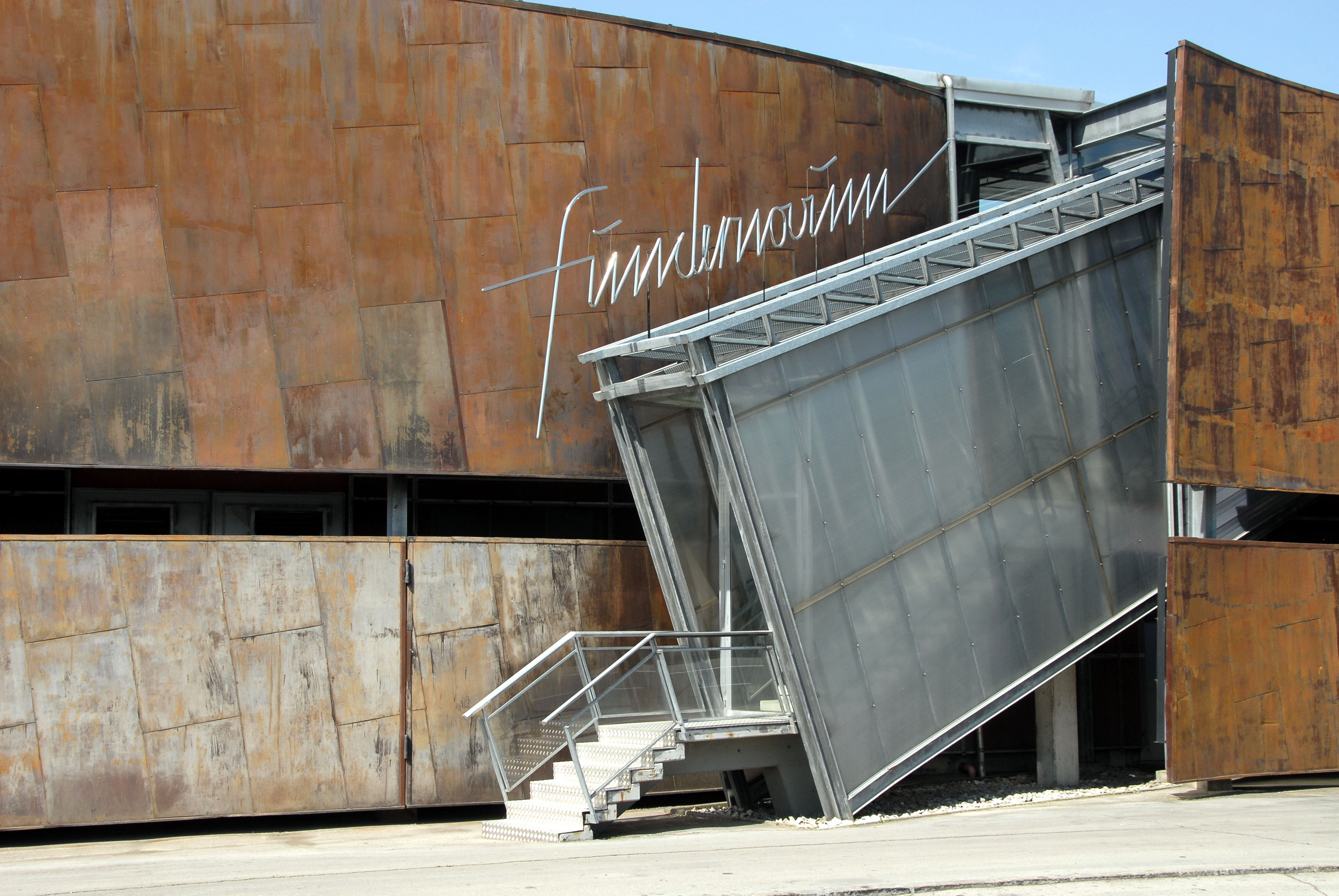 Fundernovum event-center, designed by Günther Domenig, at Glandorf in the community of Saint Veit by the Glan, Carinthia, Austria